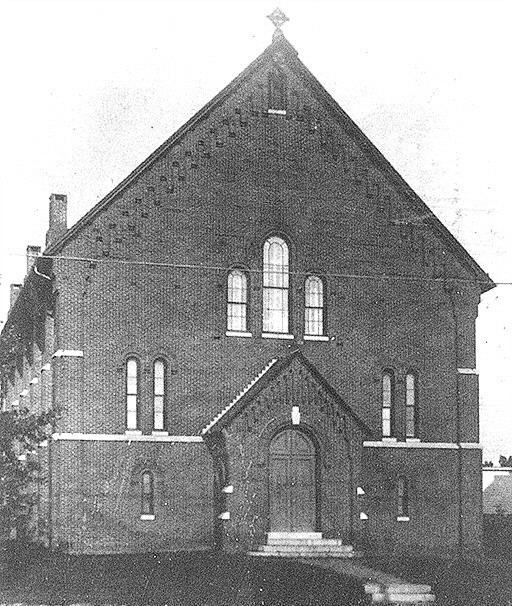 Towson Methodist Episcopal Church, built in Towson, Maryland, in 1871, as it appeared on a 1906 postcard. Later renamed First Methodist Church and eventually replaced in the 1950s by the current Towson United Methodist Church, this building was designed by architect Edmund George Lind. It was demolished in 1965.